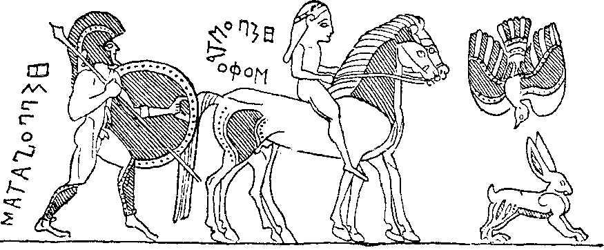 Ornithomanteia.